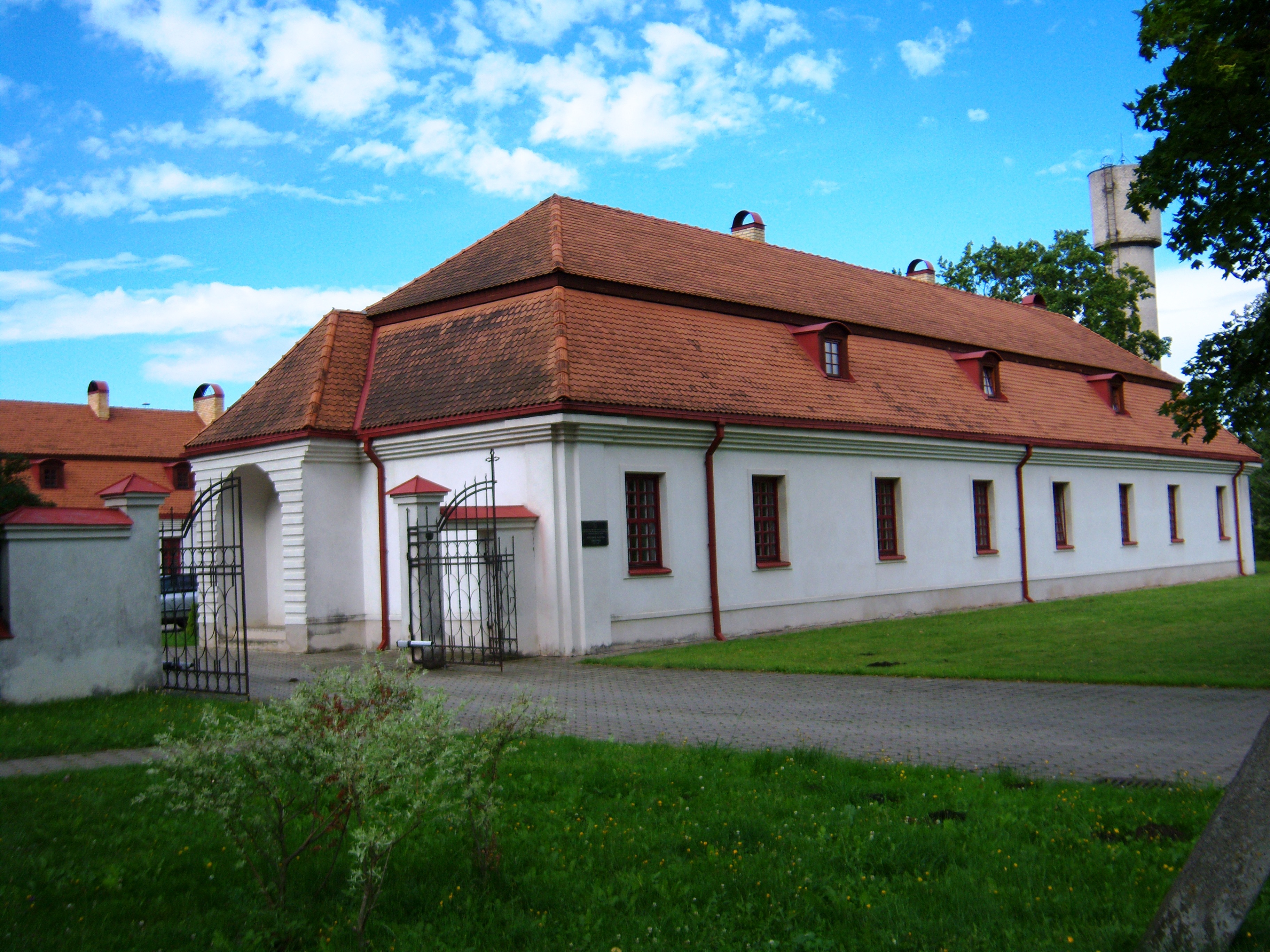 Troškūnai Monastery, Anykščiai District, Lithuania